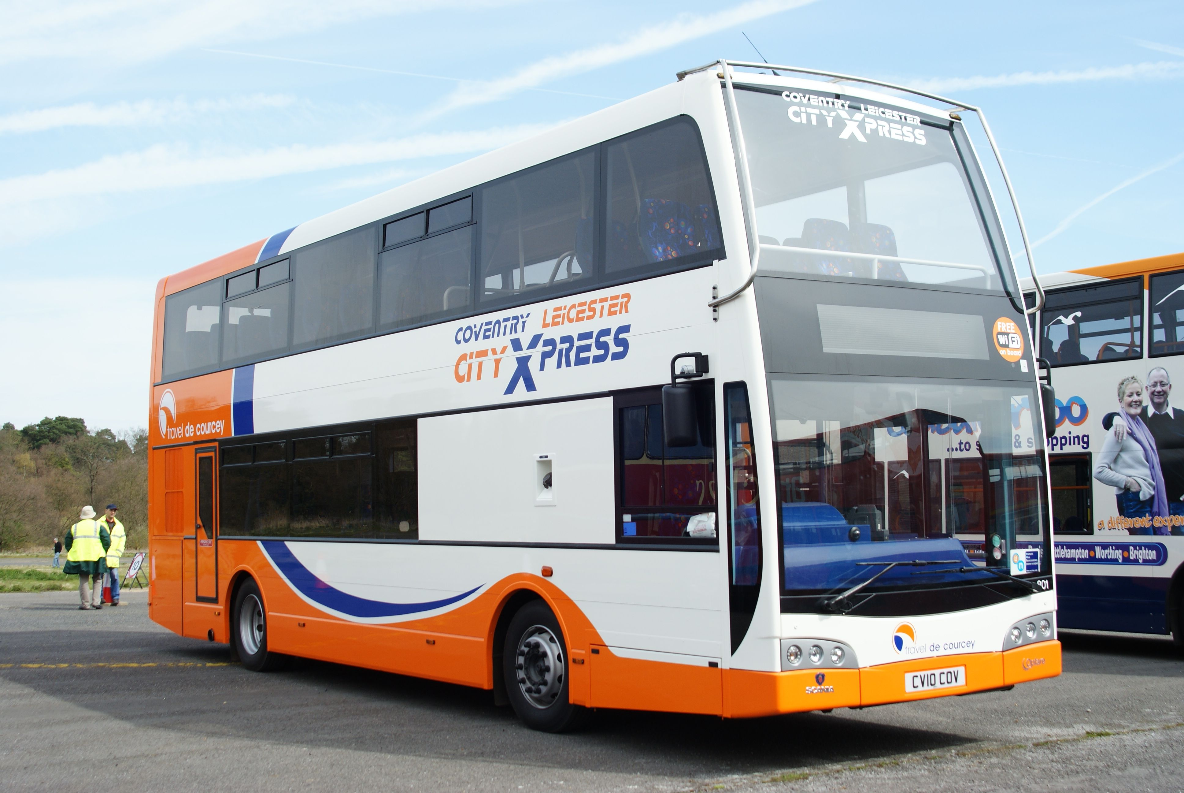 CV10COV-2 110410 CPS